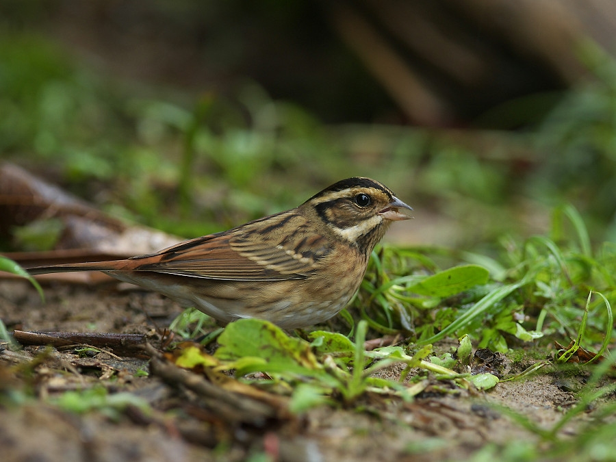 taken at Yehliu, Taipei County, Taiwan.